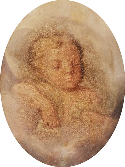 Portrait miniature of Rodrigo de Sousa Coutinho, 3rd Count of Linhares (1823-1894), as a newborn.